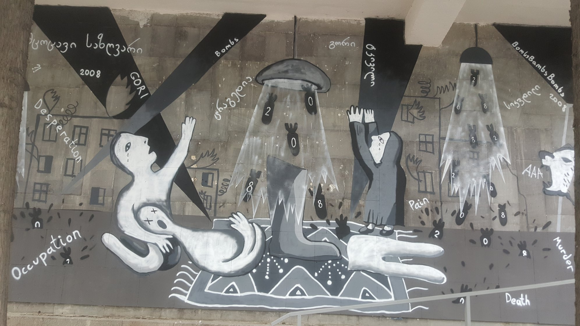 “Wall of August” is a memorial of 10 years anniversary of the Russian occupation of Georgian territory in August, 2008. Mural is based upon Picasso’s famous painting “Guernica” that was created in a response of bombing Guernica by Nazi’s. Mural depicts several tragic themes that was shoot during by the war days of 2008.. Mural conveys the several metaphorical elements such as Russian military boots on the Georgian ornamented carpet, bear enters and leaves the theme and bombs that repetitively contain the digits of 2,0,0,8.